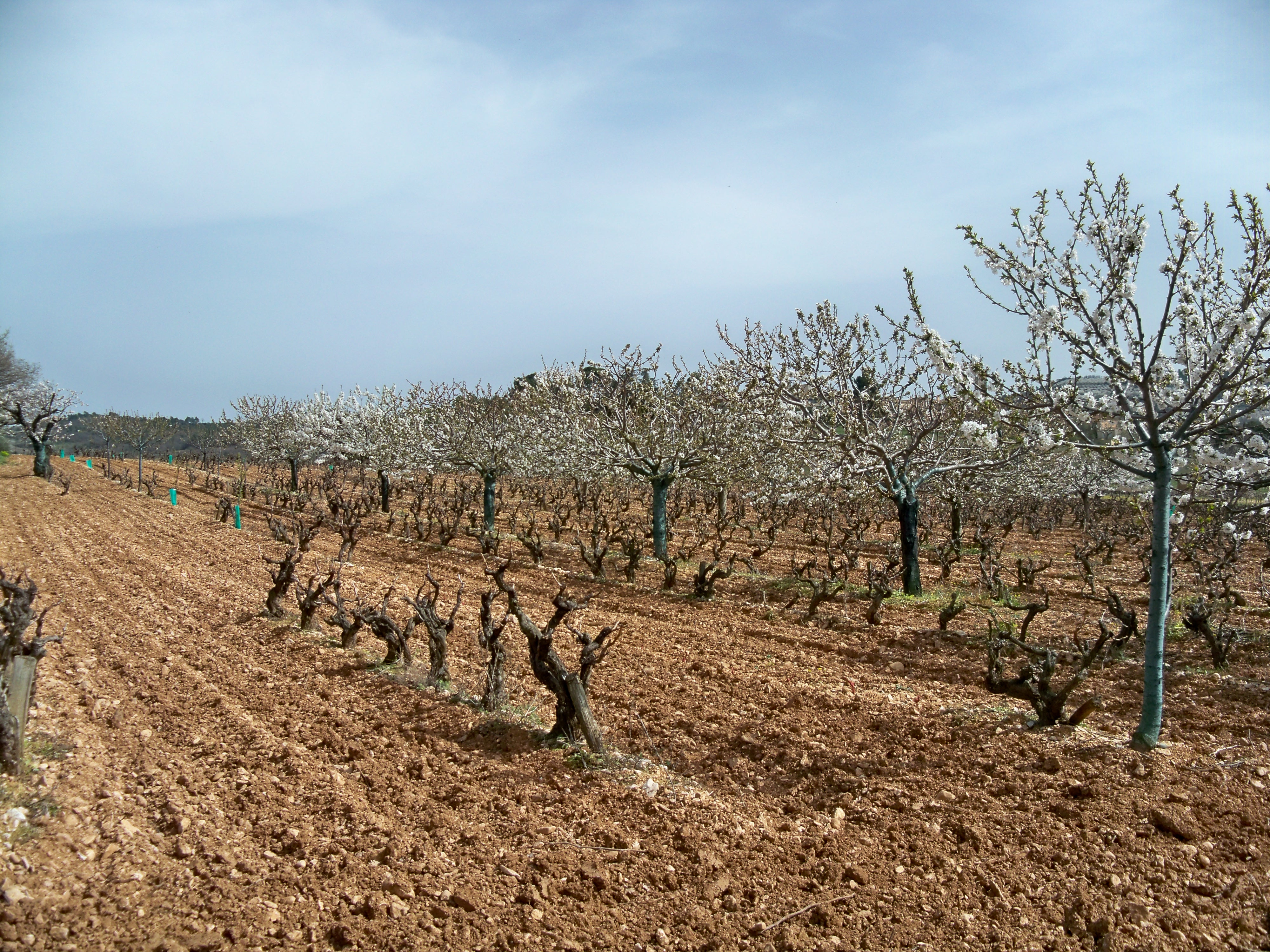 cherry trees and vineyard near Saint Saturnin lès Apt, Vaucluse, France